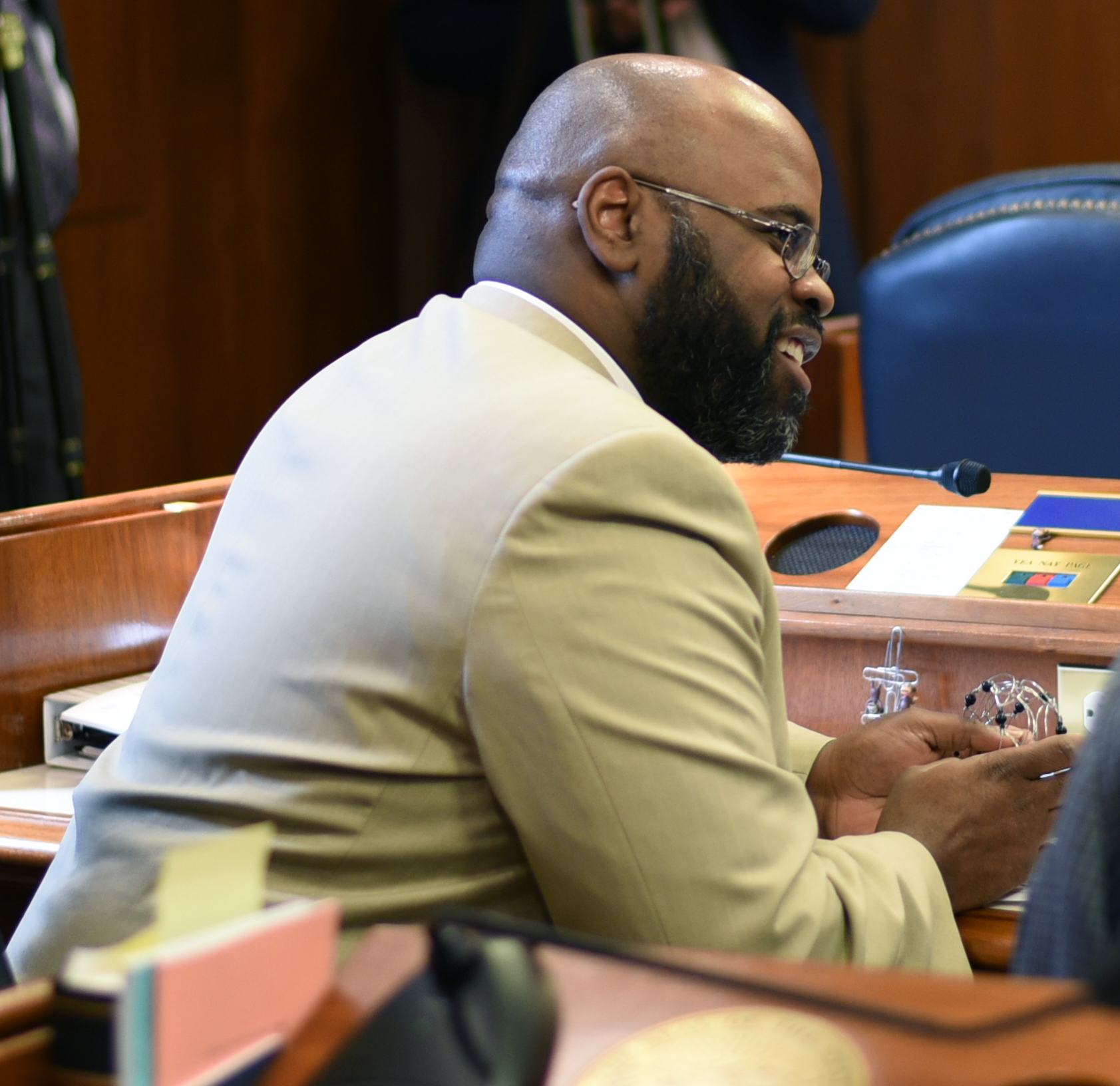 This photo is provided under a Creative Commons Attribution license. Please provide the following credit: "Photo used under Creative Commons license courtesy Paxson Woelber, The Alaska Landmine"